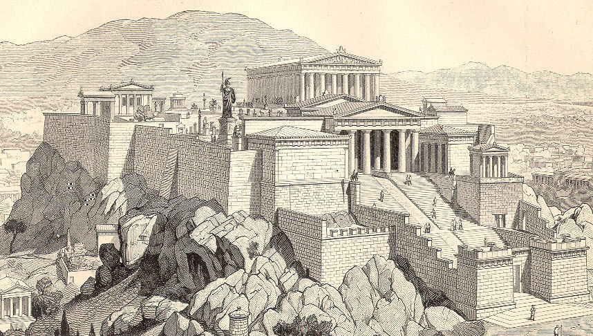 Akropolis of Athens (Greece)